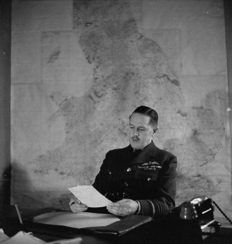 Royal Air Force Maintenance Command, 1939-1945. Air Marshal J S T Bradley, Air Officer Commanding-in-Chief Maintenance Command, at Maintenance Command Headquarters in Andover, Hampshire.